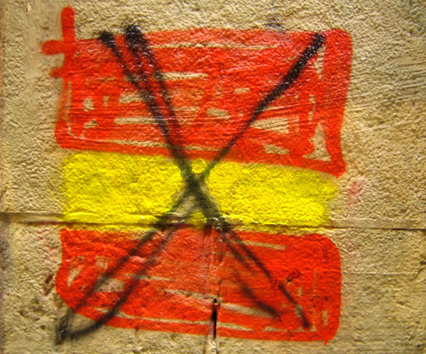 Graffiti of defaced Spanish flag, in the old town of Donostia - San Sebastián